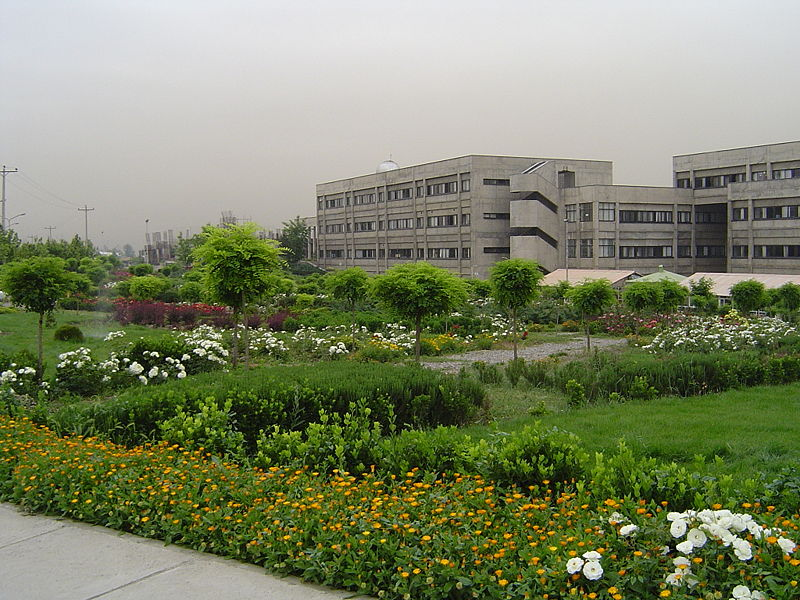 Faculty of Science, Ferdowsi University of Mashhad, Mashad